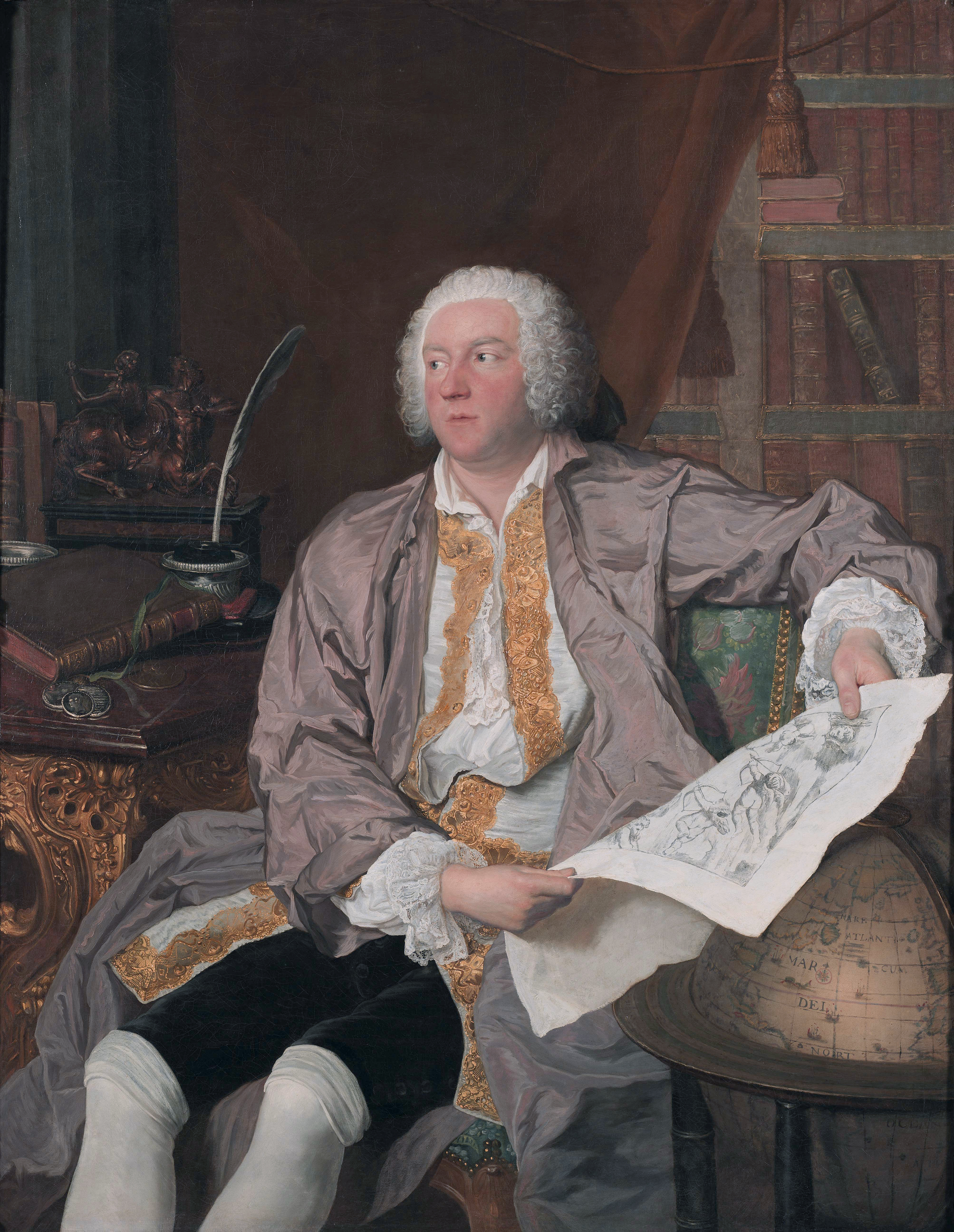 Count Carl Gustaf Tessin oil on canvas 149 x 116 cm